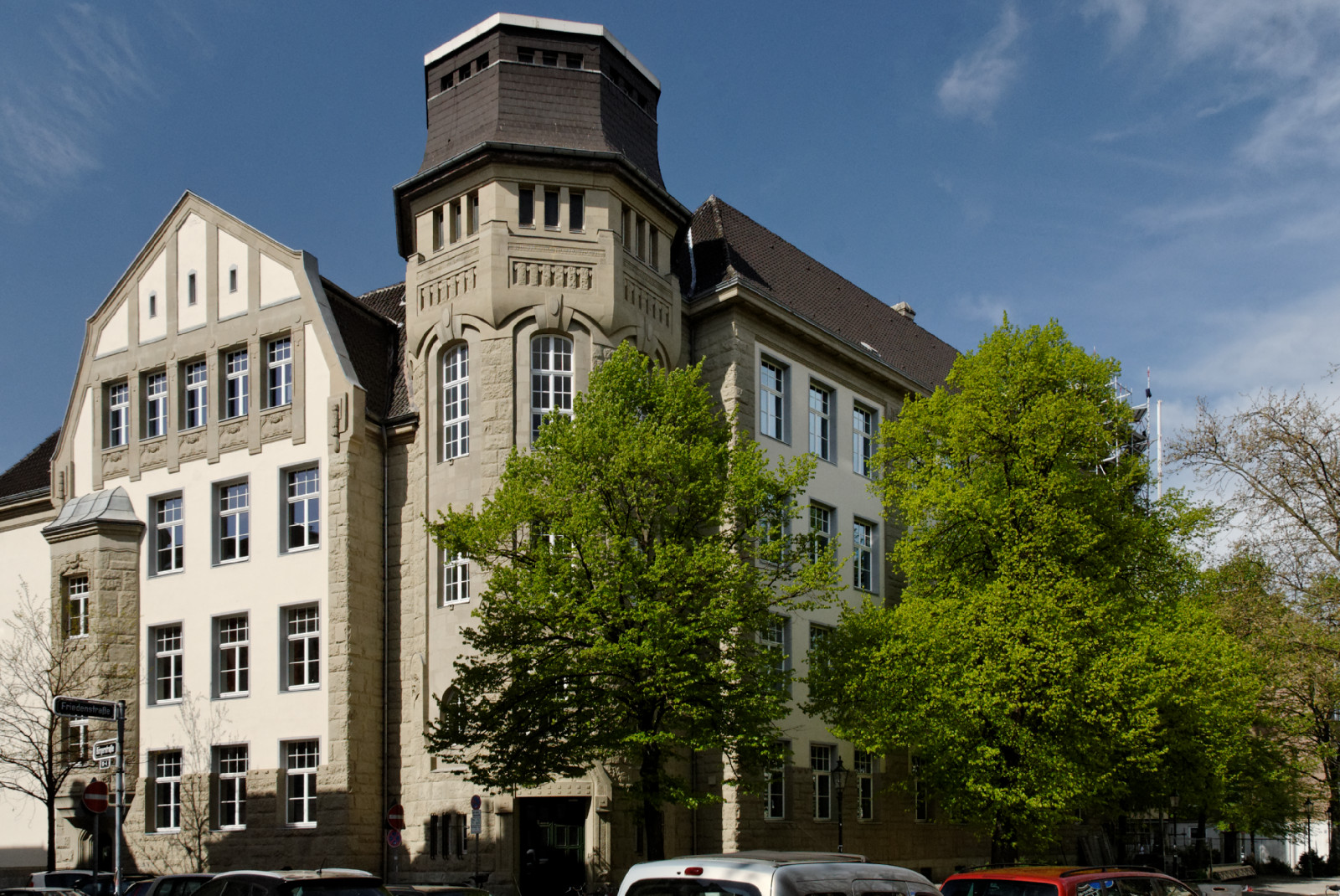 Leo-Statz-Berufskolleg, Friedenstraße 29 in Düsseldorf-Unterbilk, Germany